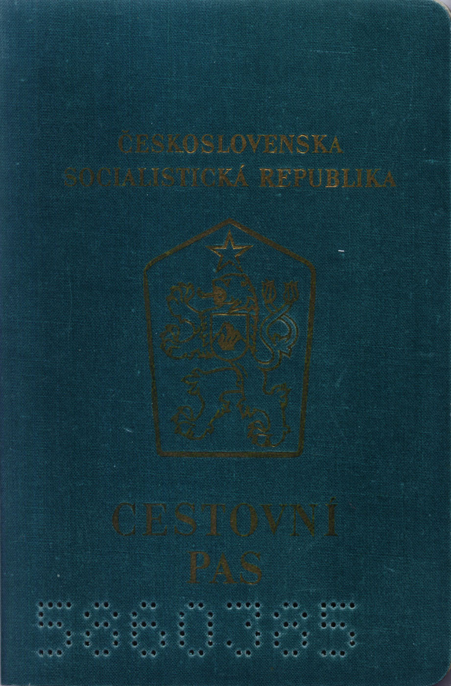 Passport of socialist Czechoslovakia in 1967